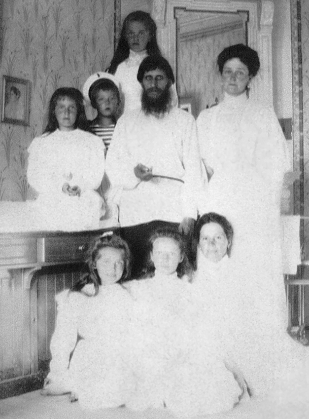 Empress Alexandra Feodorovna with Rasputin, her children and a governess.